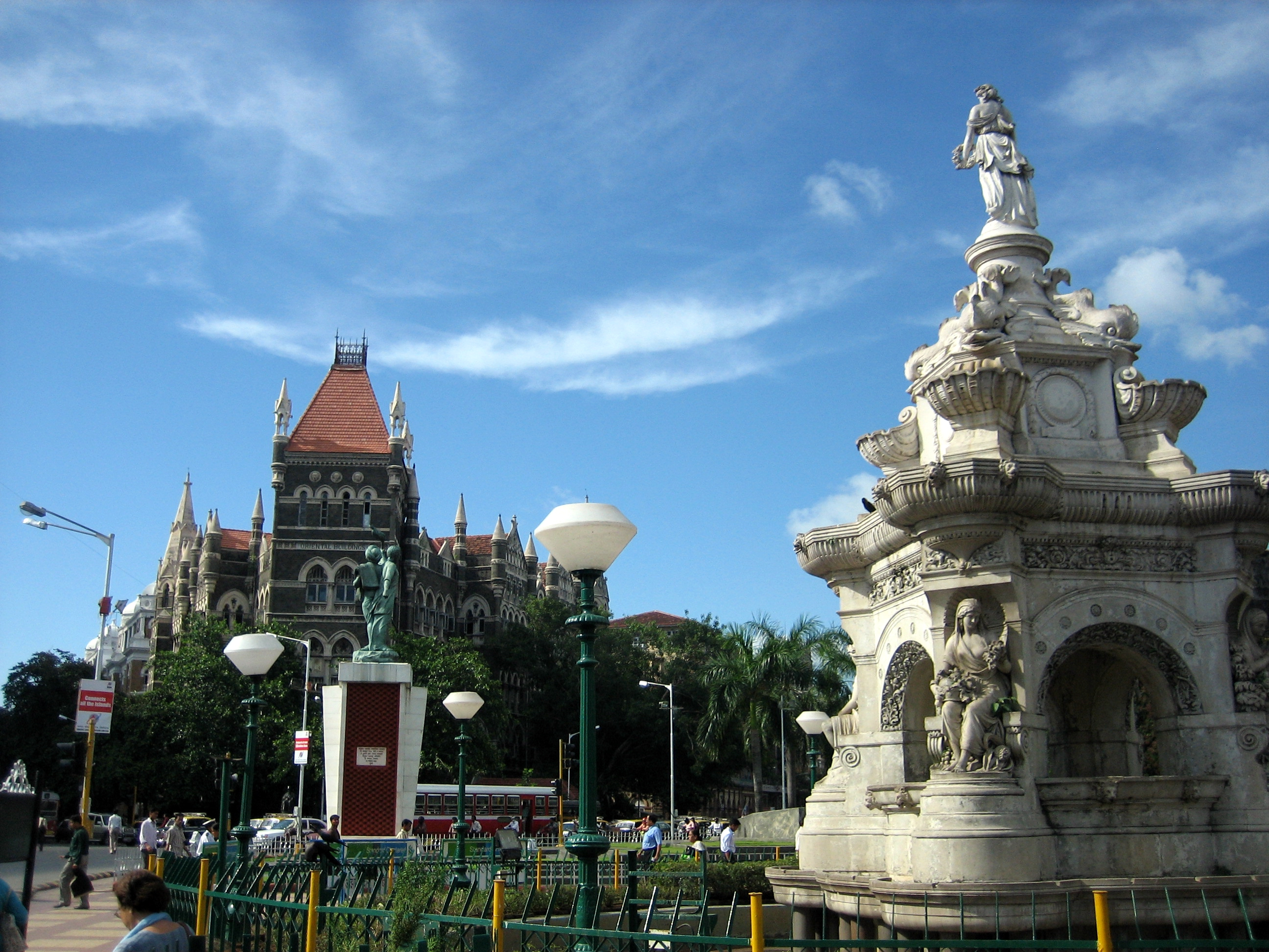 Taken by Michael Siegel Uploaded to Wiki by user:nikkul